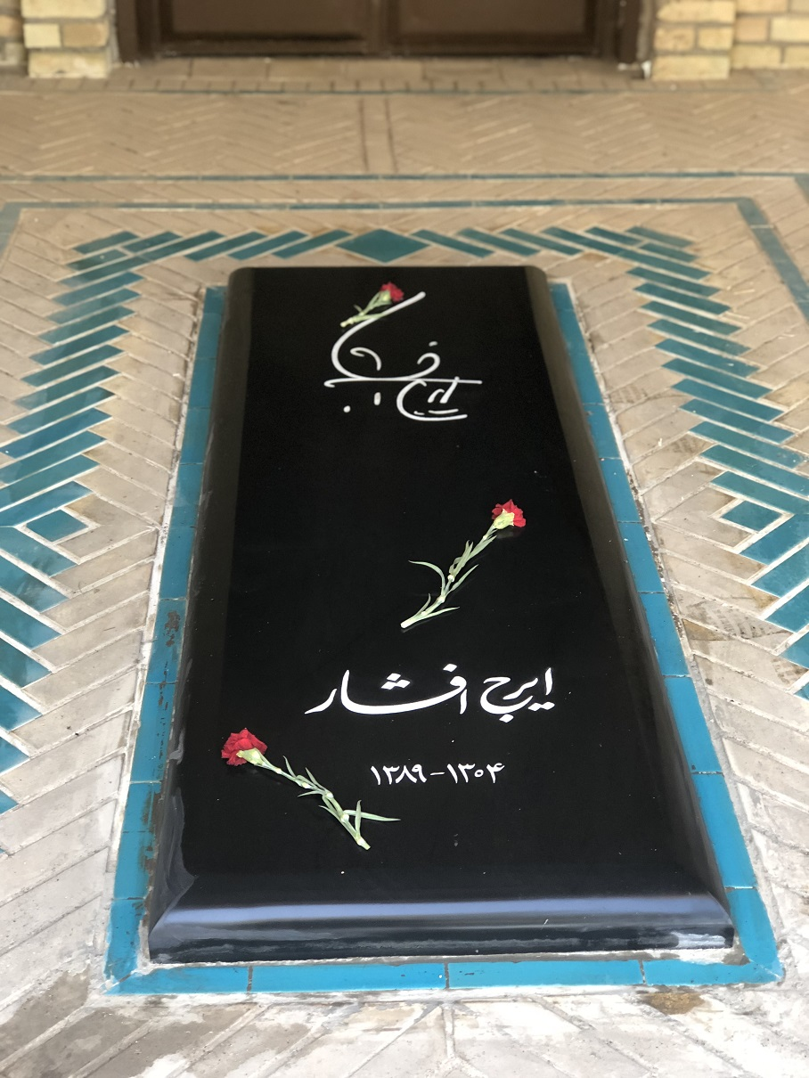 Iraj Afshar Tomb